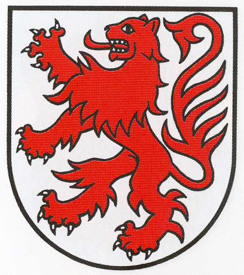 Coat of Arms of Altstadt, Part of Braunschweig